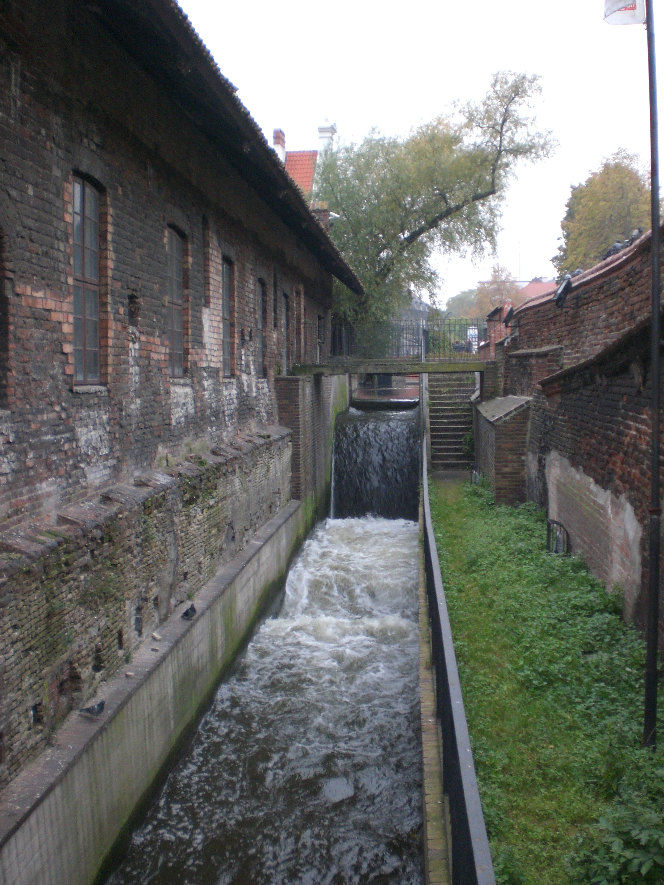 Great Mill in Stare Miasto of Gdańsk